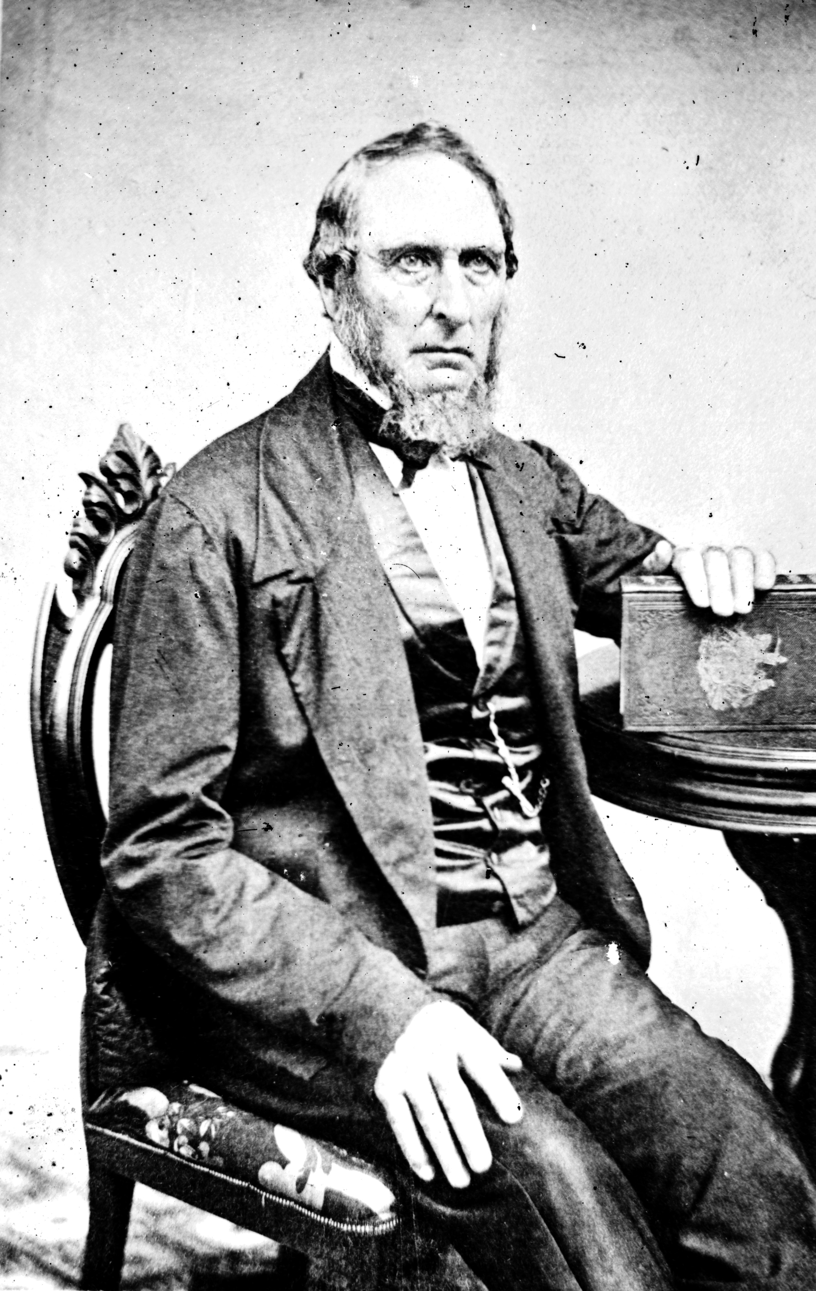 Owen Chase (1798-1869) was the first mate on the now famous voyage of the ship Essex, sunk by a whale in 1820 in the South Pacific. Chase wrote about the incident in Narrative of the Most Extraordinary and Distressing Shipwreck of the Whale-Ship Essex. This book, published in 1821, would inspire Herman Melville to write Moby-Dick and later was detailed by Nat Philbrick in In the Heart of the Sea: The Tragedy of the Whaleship Essex. The tragic loss and resulting cannibalism made a popular tale. Image number: GPN4448